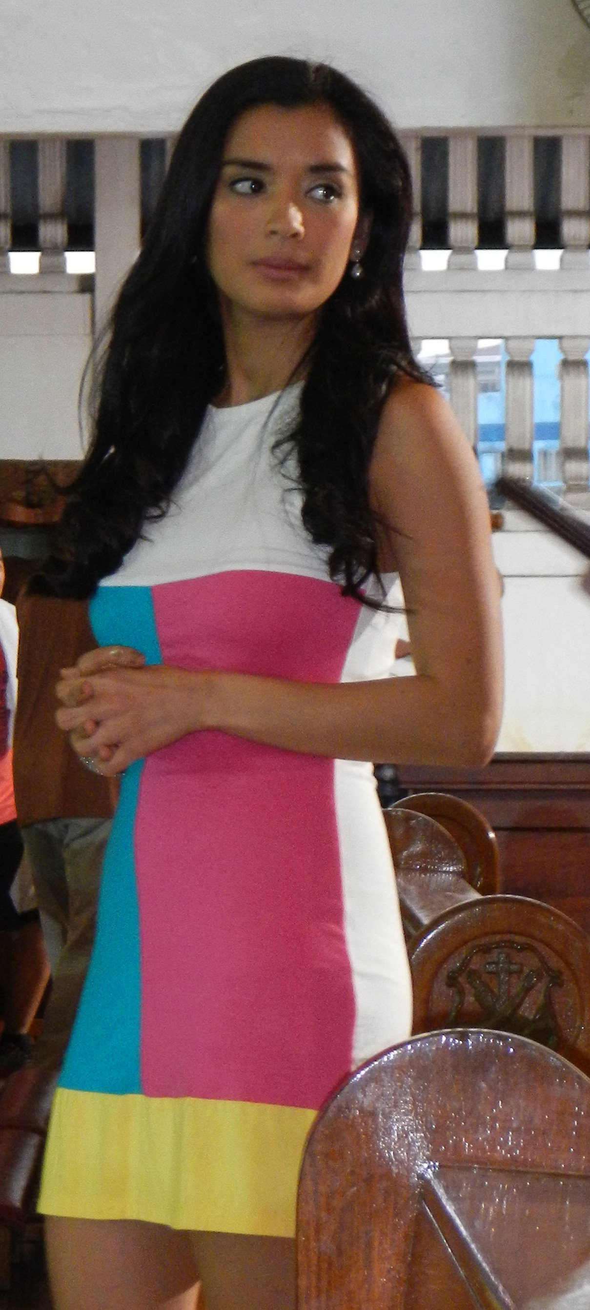 Santuario de San Pedro Bautista[1] (or Church of San Francisco Del Monte - formerly named San Pedro Bautista Parish), stands on holy ground because of its Patron Saint, San Pedro Bautista[2], lived out his vocation, re-energized his missionary calling and prayed for God's people here. It is the second oldest church in the Philippines. The parish belongs to the Diocese of Cubao[3]under the Vicariate of San Pedro Bautista. It is also under the care of Order of Friars Minor (OFM, aka Franciscans), from the Franciscan Province of San Pedro Bautista.Santuario de San Pedro Bautista covers six barangays, namely: Damayan, Del Monte, Mariblo, Paraiso, Sta. Cruz, and Talayan. Pat Senador St. (West Bound), Quezon Avenue (East Bound) Araneta Avenue (South Bound) Judge Juan Luna Street (North Bound) Address: #69 San Pedro Bautista St., SFDM, Quezon City November 11, 1932 Feast Day: Nearest Sunday to February 5 Coordinates: 14°38'15"N 121°0'45"E[4] THE PASTORS Fr. Carlos S. Santos,OFM - Parish Priest / Prov. Secretary for Missionary Evangelization Fr. Rolie G. Pimentero, OFM - Parochial Vicar Fr. Baltazar A. Obico, OFM - Provincial Vicar / Parochial Vicar Fr. Angelito A. Salazar, OFM - Postulancy Director / Parochial Vicar Fr. Mario D. Evangelista, OFM - Parochial Vicar Fr. Jerome C. Angulo, OFM - Guardian / Provincial Secretary / Parochial Vicar Bro. Ariel Manga, OFM - Procurator Twenty-six Martyrs of Japan [5] (日本二十六聖人 Nihon Nijūroku Seijin?)